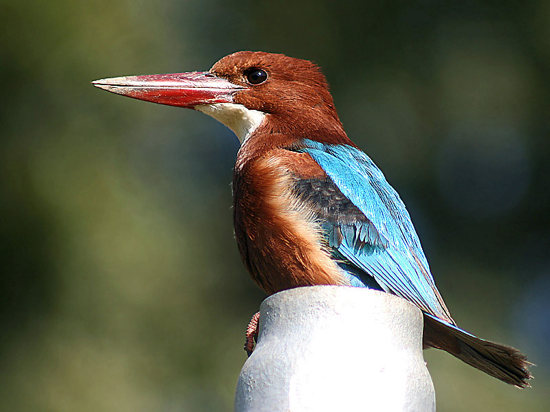 White-throated Kingfisher Halcyon smyrnensis at Bharatpur, Haryana, India.